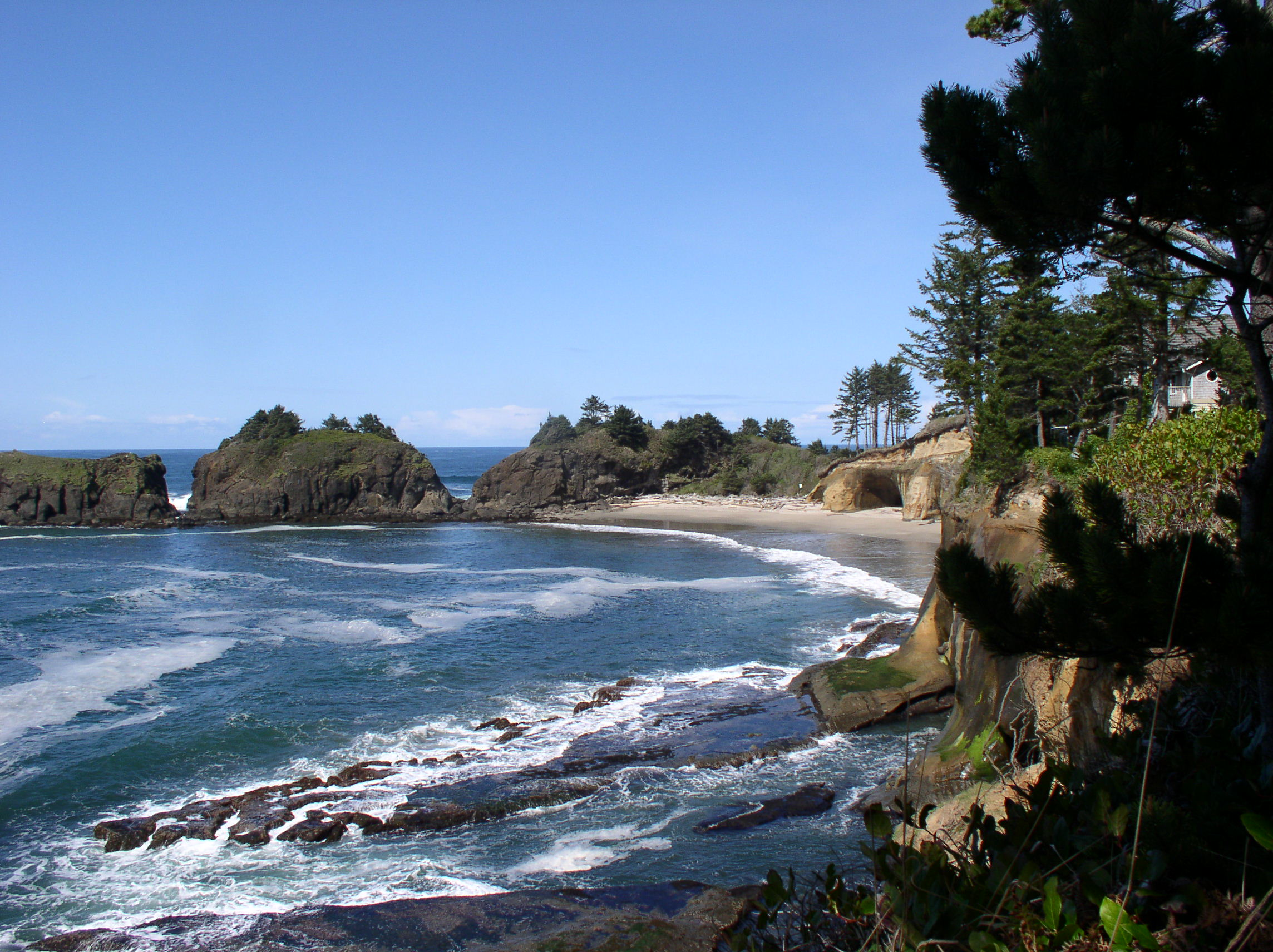 Photo by Bryce Buchanan